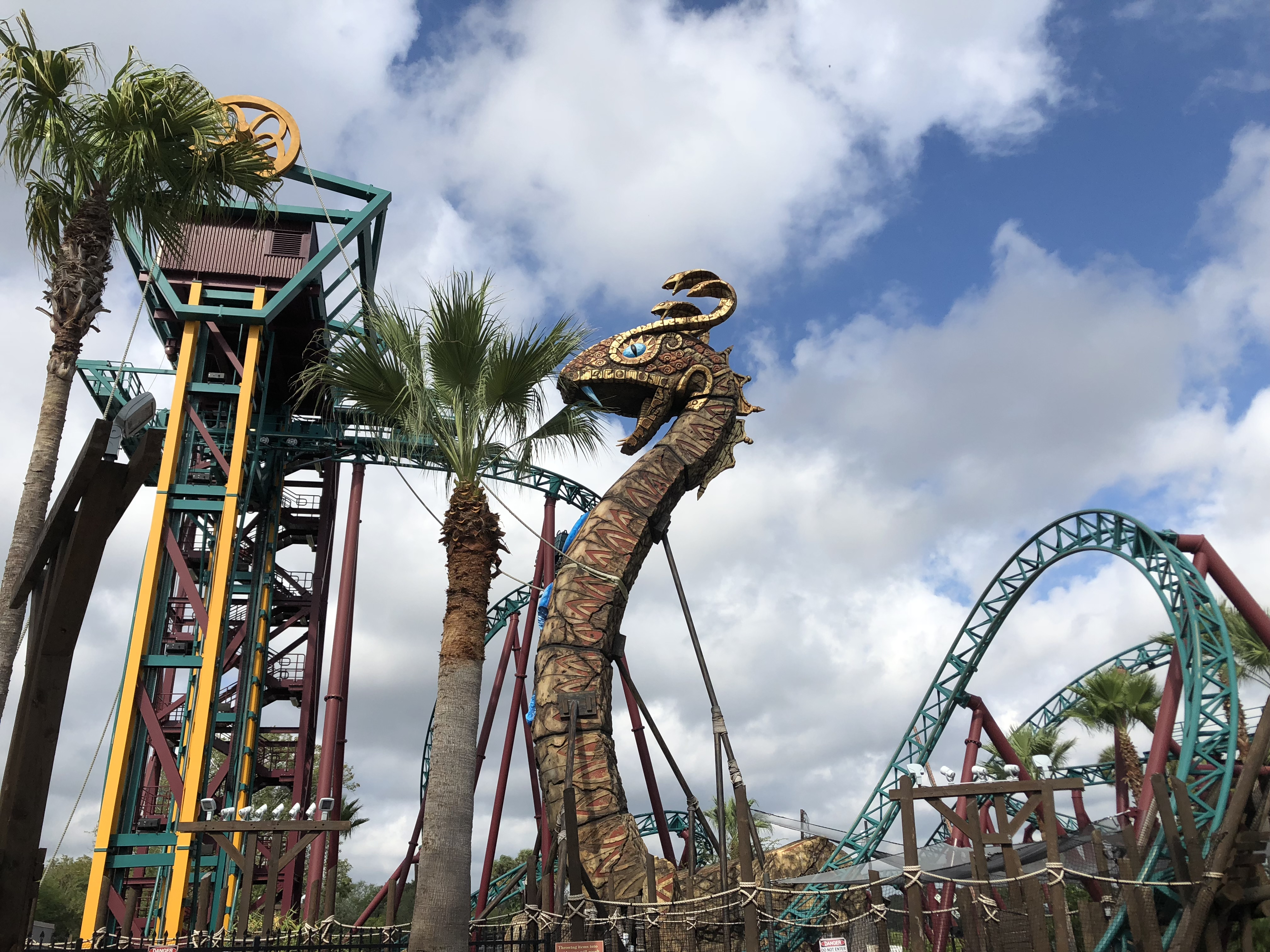 View of Busch Gardens Tampa's elevator lift and layout for the roller coaster Cobra's Curse.